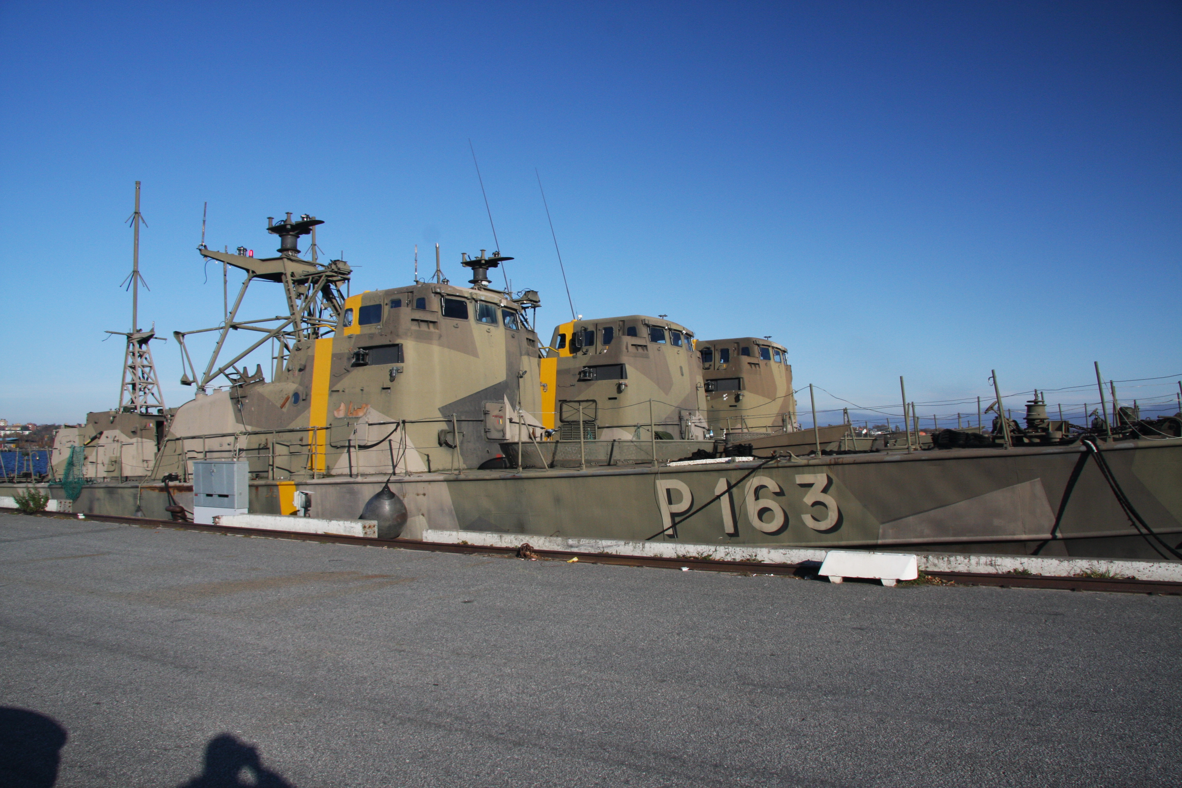 Former Swedish Patrol Boat HMS Styrbjorn just before being towed to England to be refitted as patrol boats in order to fight pirates off Somalia.